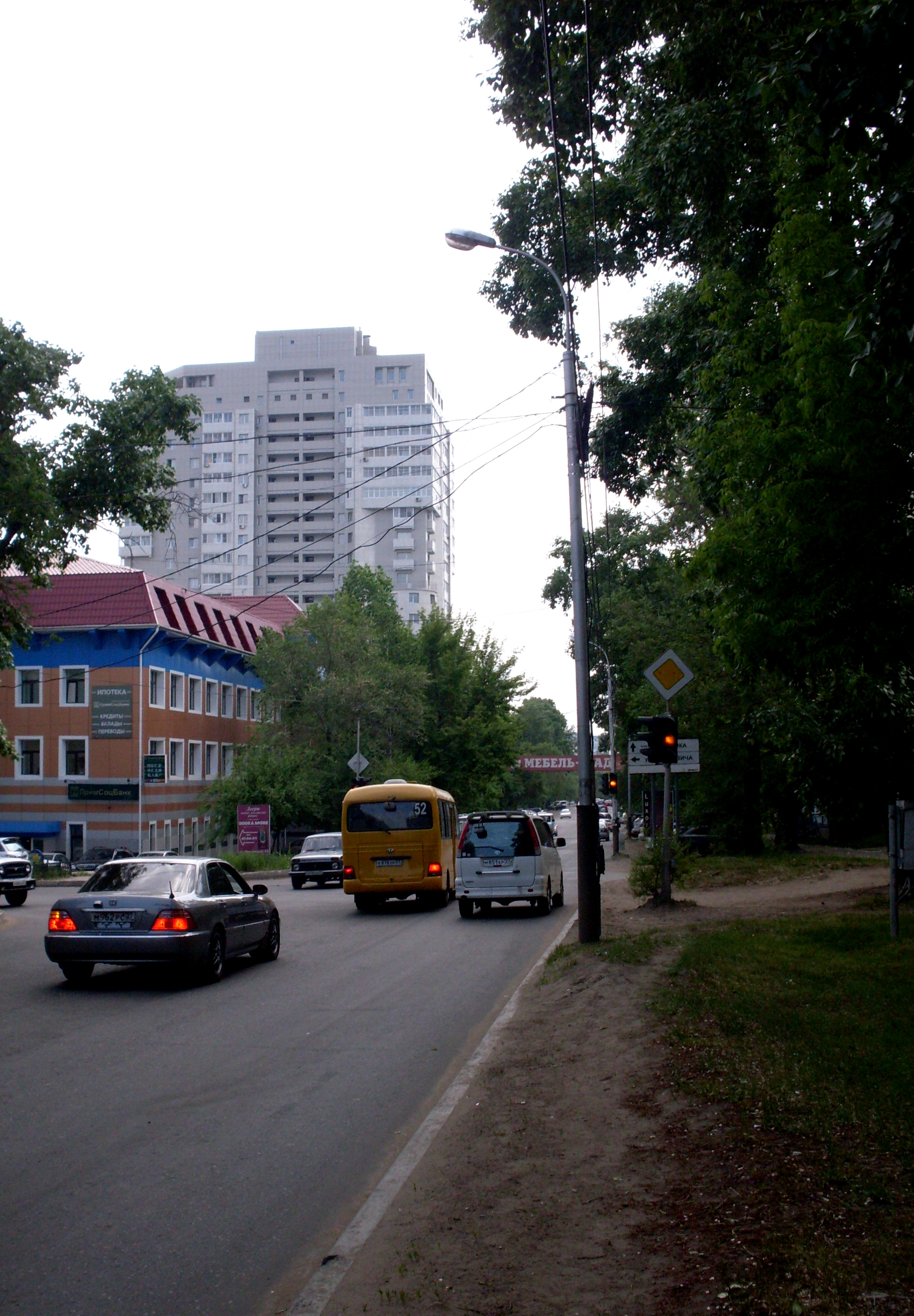 Gamarnik-street in Khabarovsk (Russia)